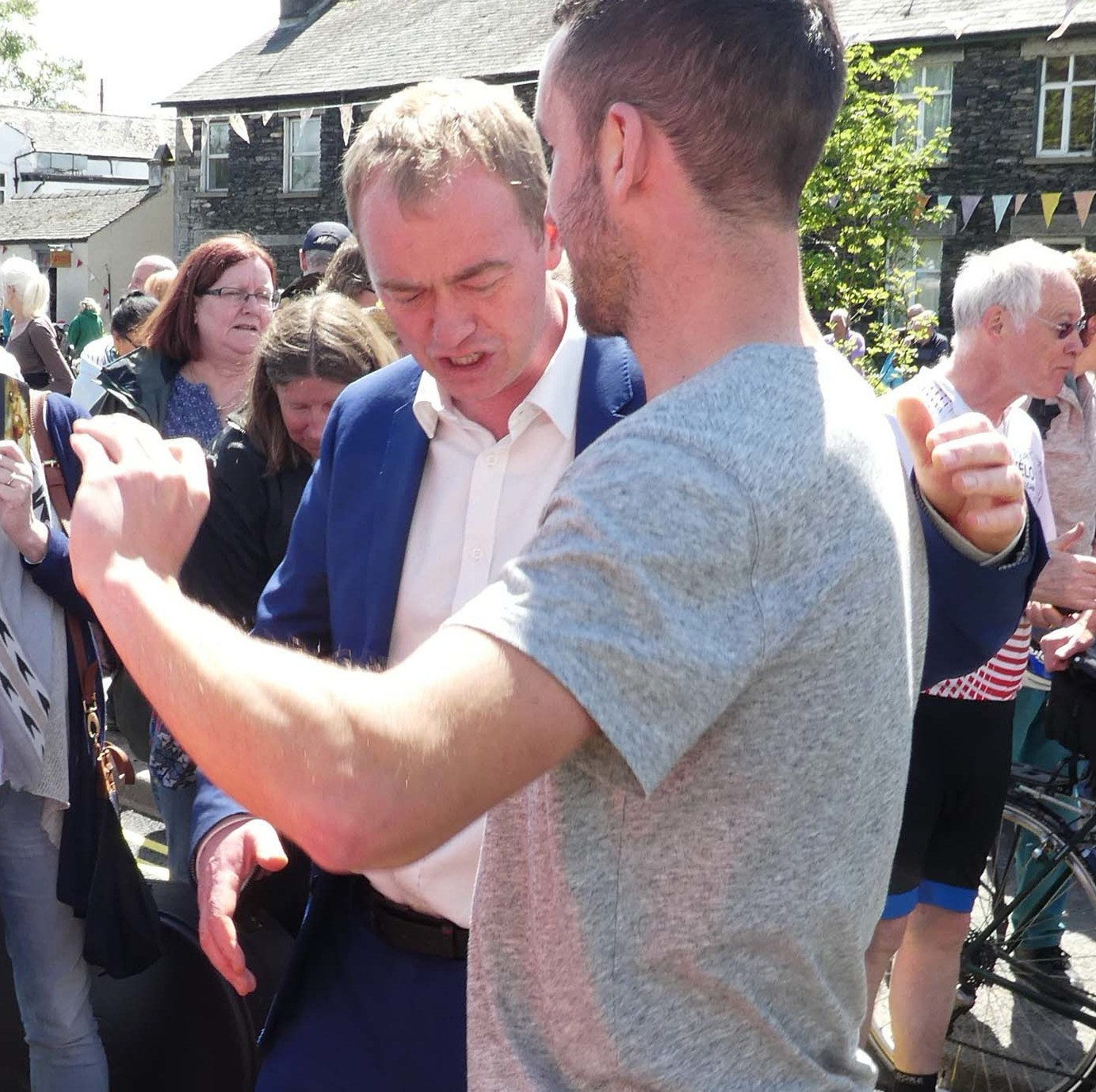 photo with Tim Farron